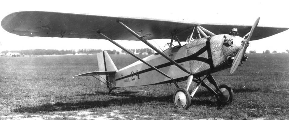 ANBO-II, reconstructed and transferred to Lithuanian Aero Club